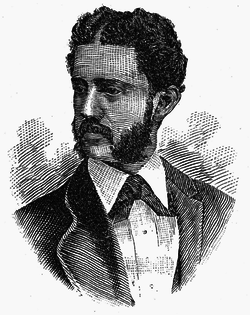 Luis_Ayestarán_Moliner